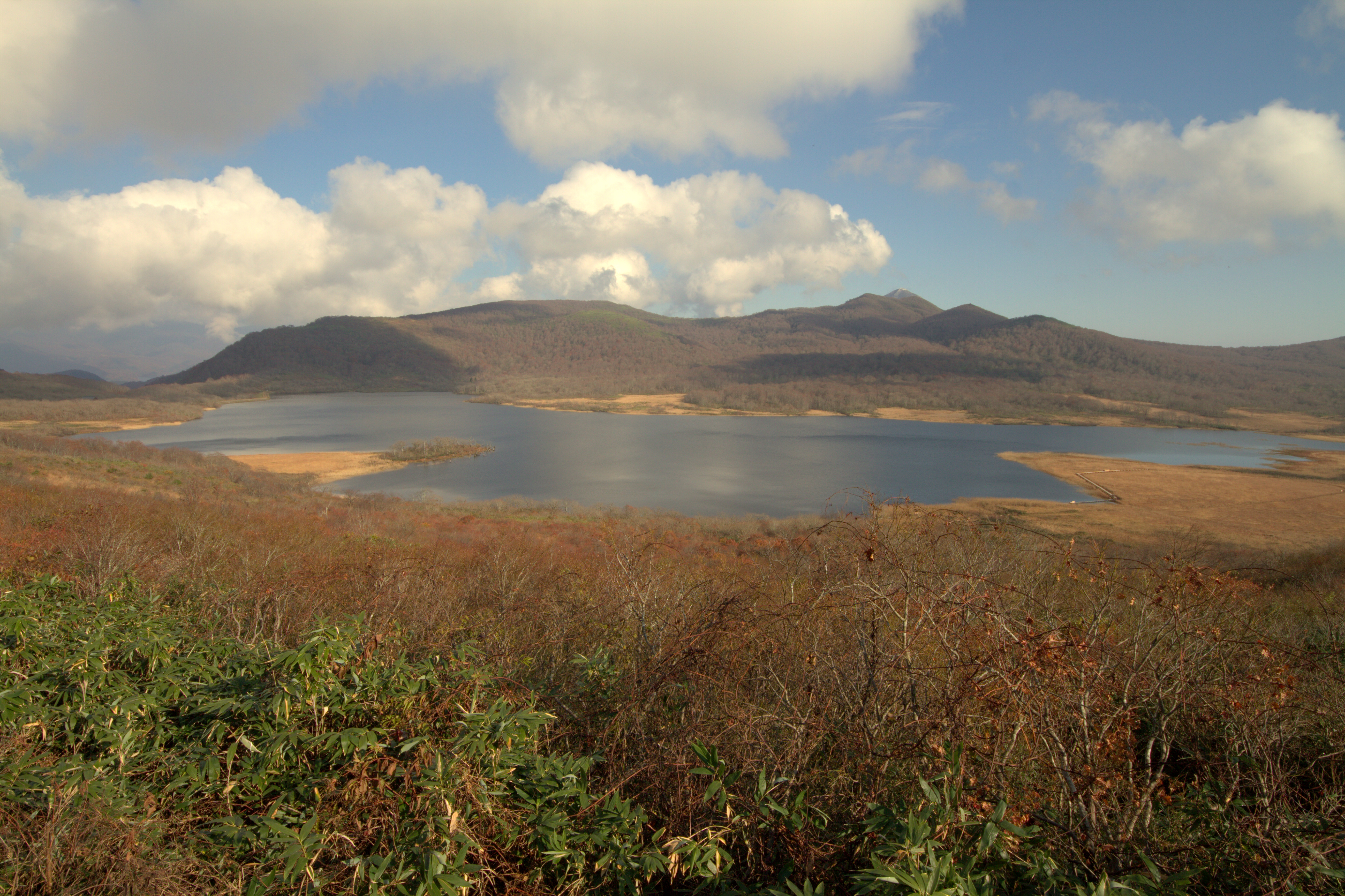 Oguni Pond with Mount Nekomadake (back right), Fukushima Prefecture, Japan.